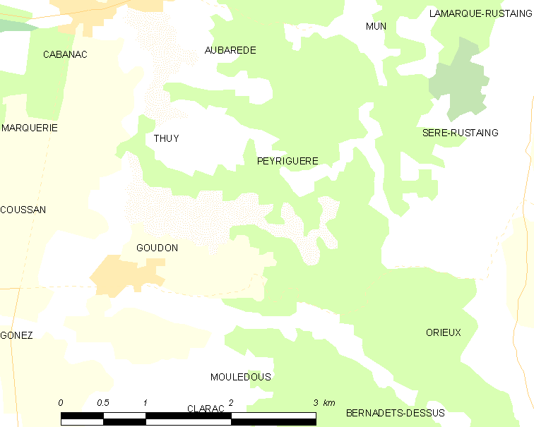 Map of French municipality